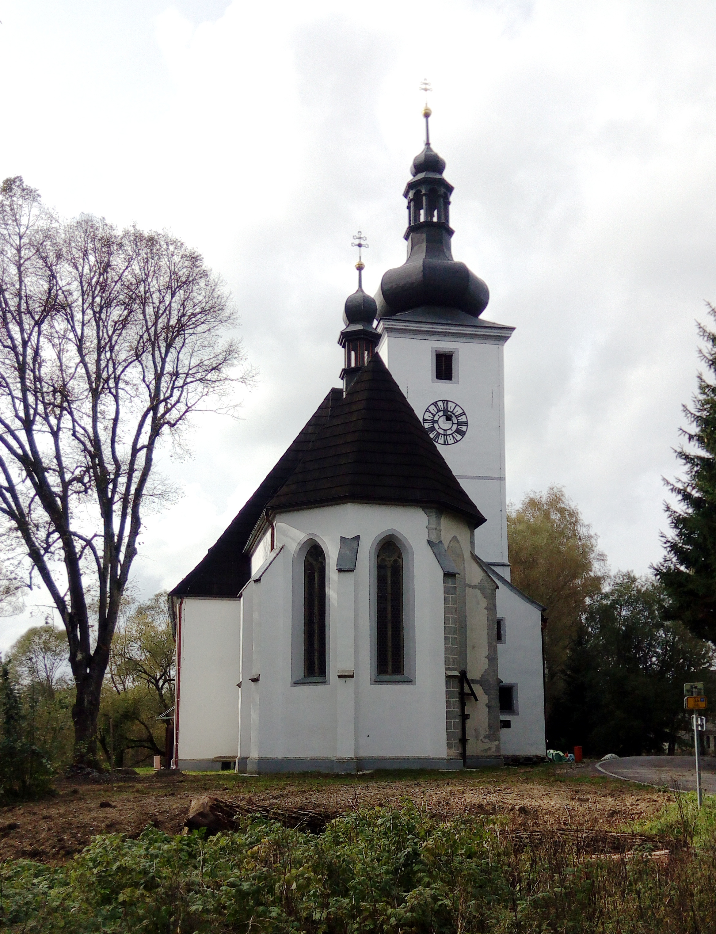 Church of the Nativity of the Virgin Mary in Cetviny, Český Krumlov District